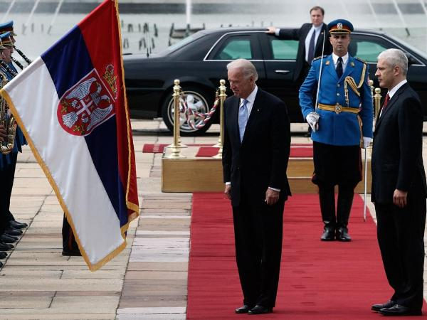 Boris Tadic, President of Serbia and Joseph Biden, Vice-President of the United States